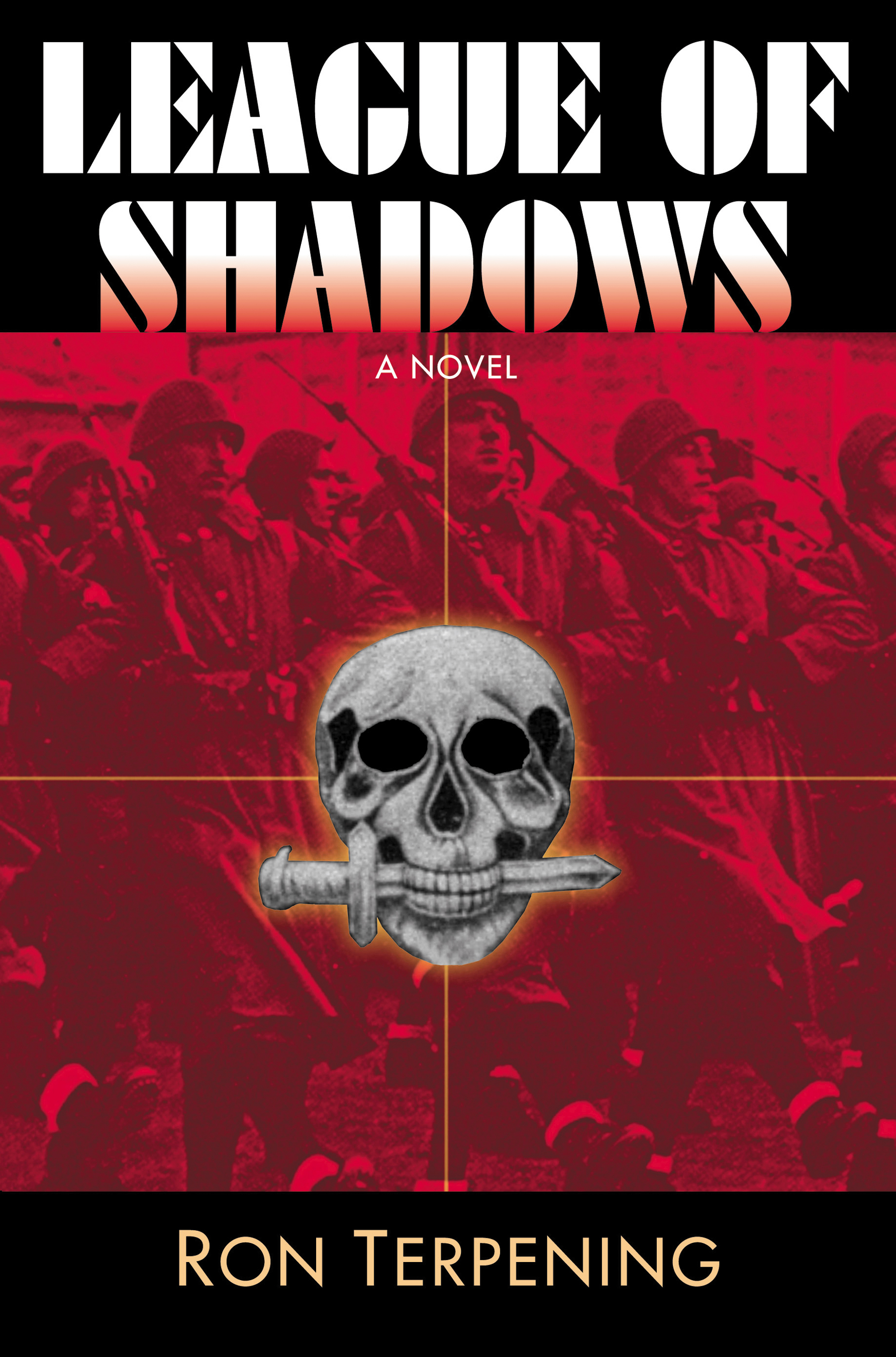 League of Shadows front cover